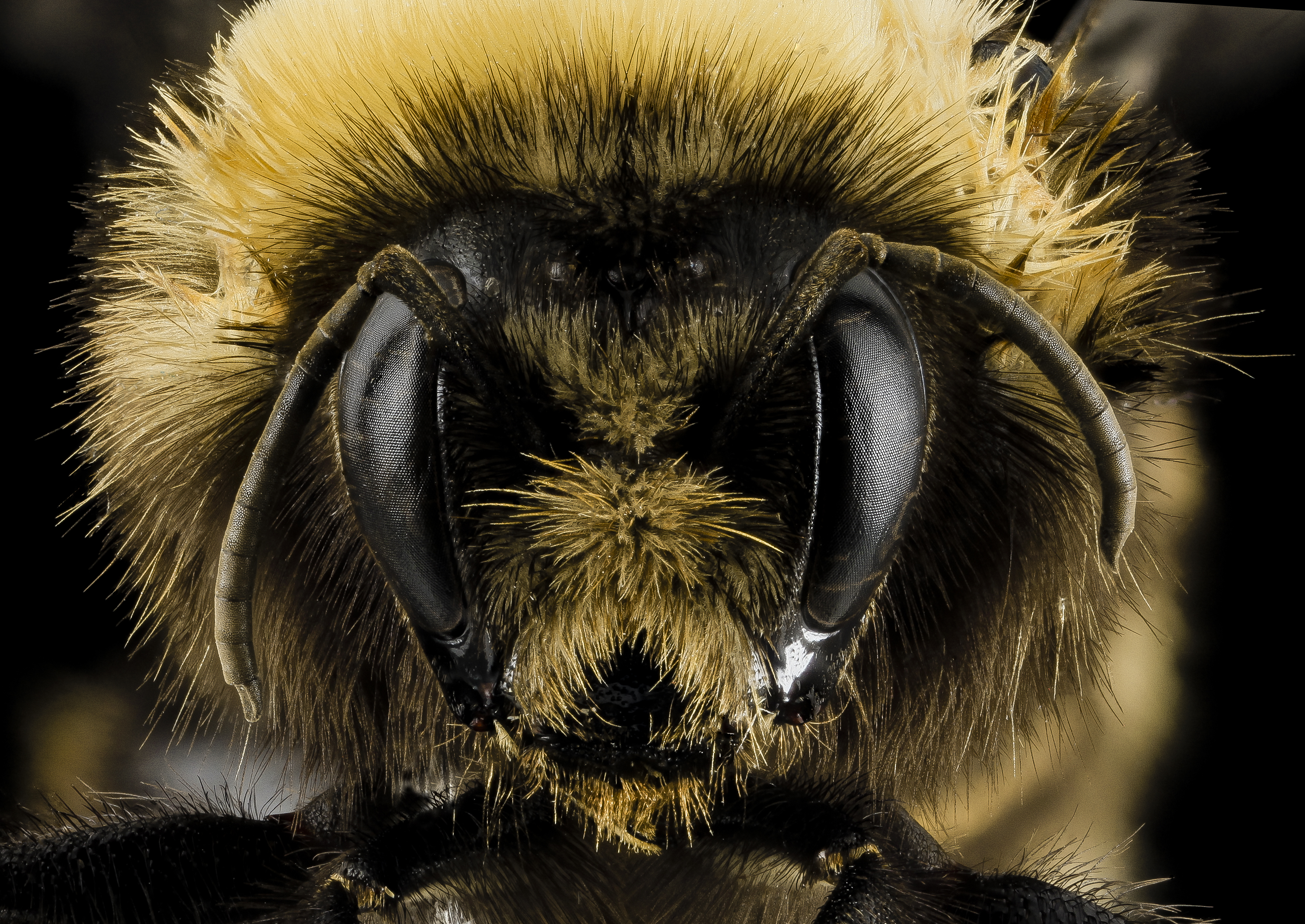 What a lovely face. This bumblebee species has almost entirely disappeared from its West Coast range due to a recent epidemic sweeping through some bumblebee populations. However, the Rocky Mountain populations still persist and there is hope that the West Coast population will also recover and resume its place as one of the most common bumblebee species in the West. Note that there are several color variations of this species .... this one is representative of those found in the Rockies. Canon Mark II 5D, Zerene Stacker, 65mm Canon MP-E 1-5X macro lens, Twin Macro Flash, F5.0, ISO 100, Shutter Speed 200, link to a .pdf of our set up is located in our profile